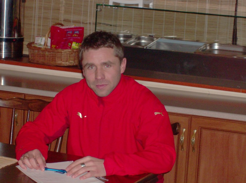 Arkadiusz Bak